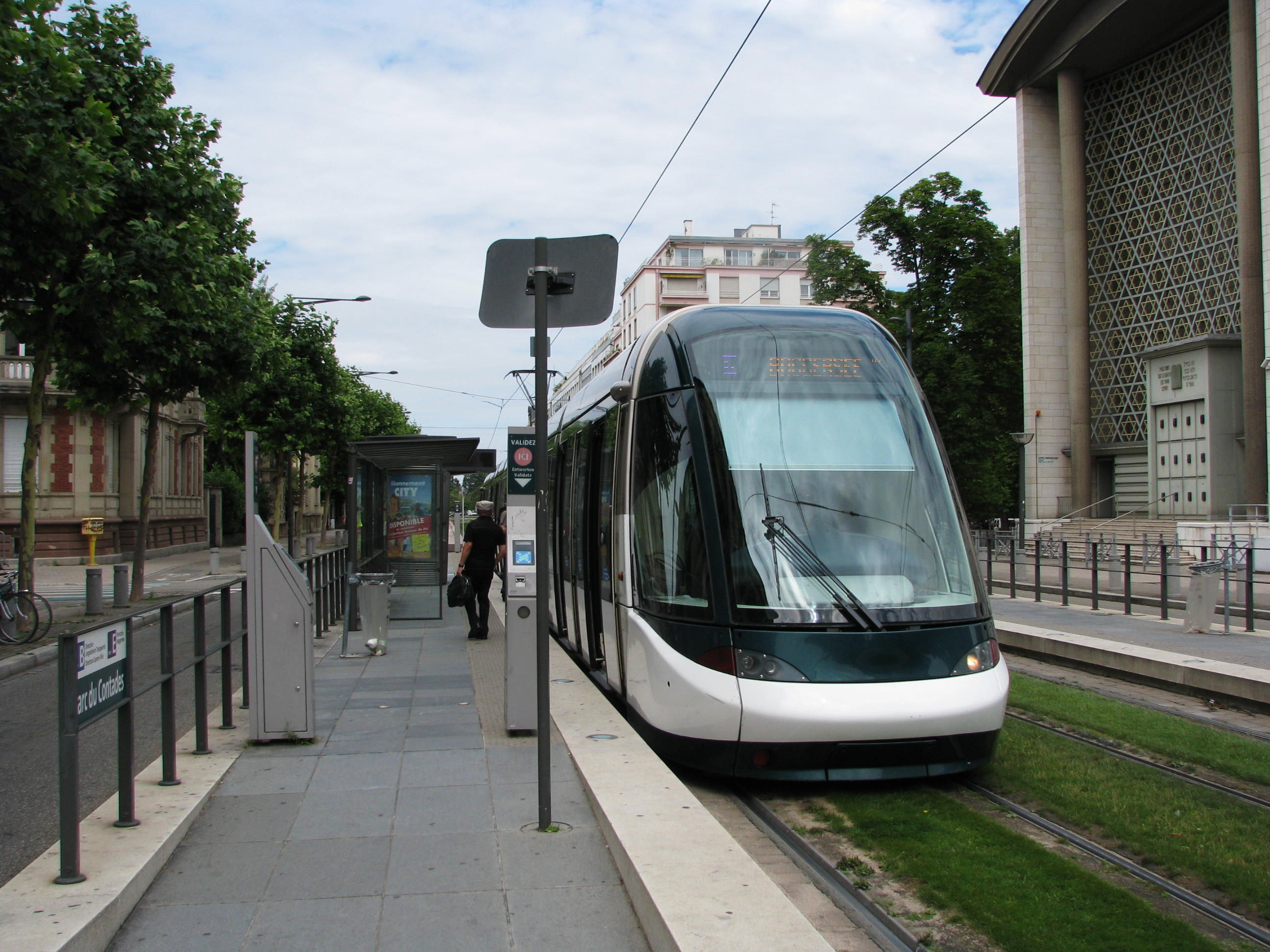 Tramways in Strasbourg